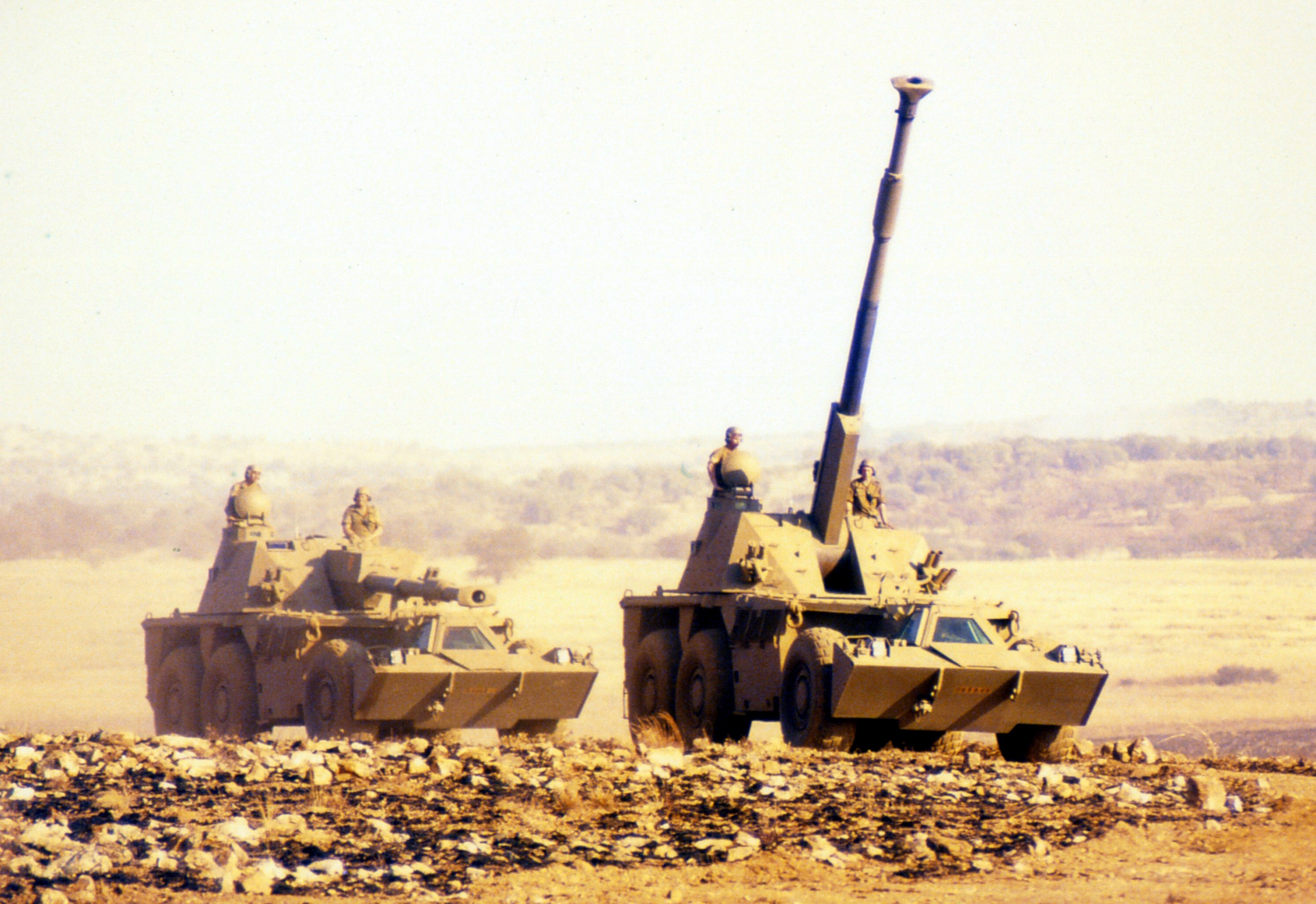 The first two South African G6 155-mm howitzers, here demonstrated to the SAAF Senior Command and Staff Course during the winter of 1987 shortly before it first entered service.